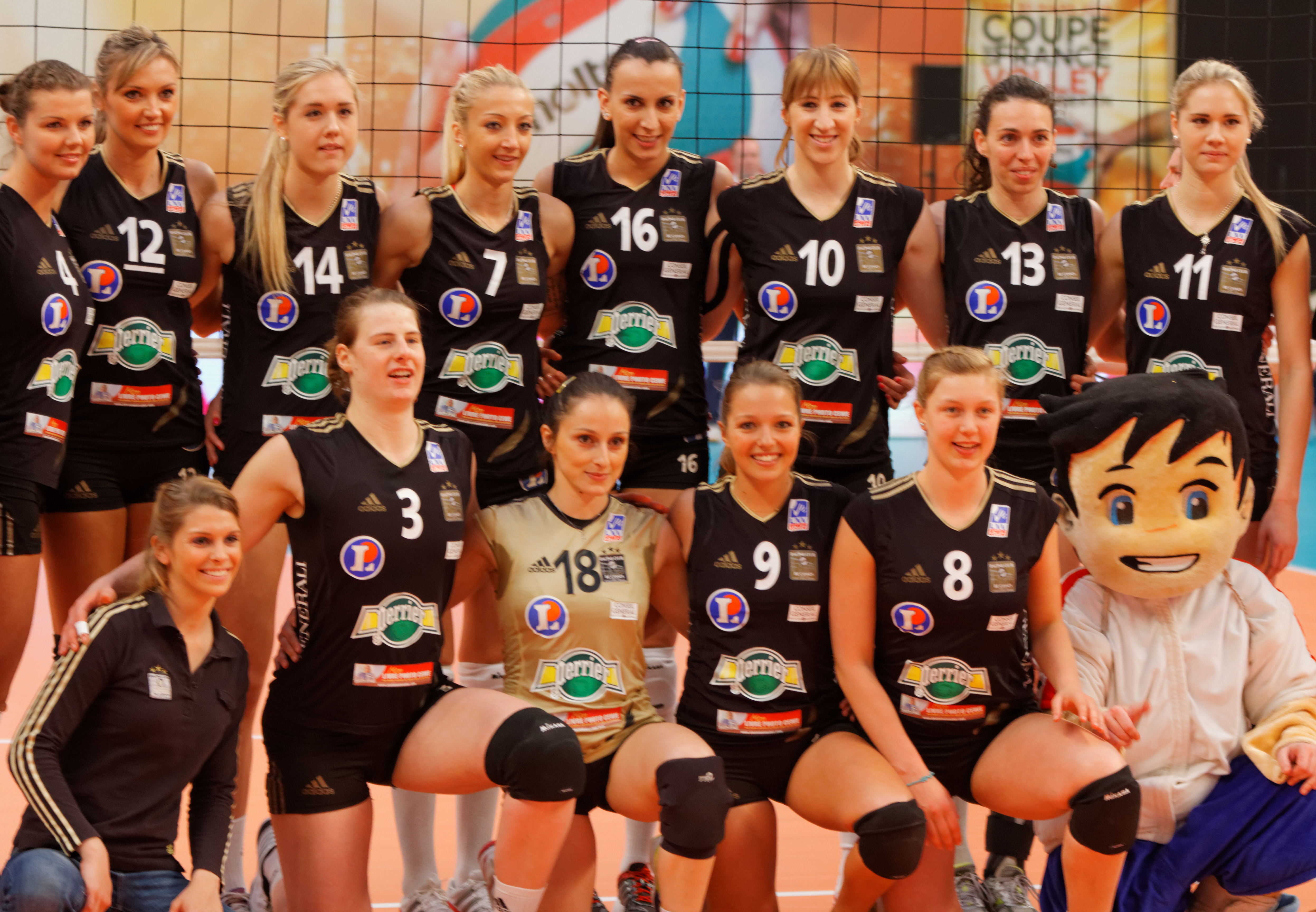 Final of the Volleyball French Cup, Racing Club de Cannes - Stella Étoile Sportive Calais, March 30, 2013.